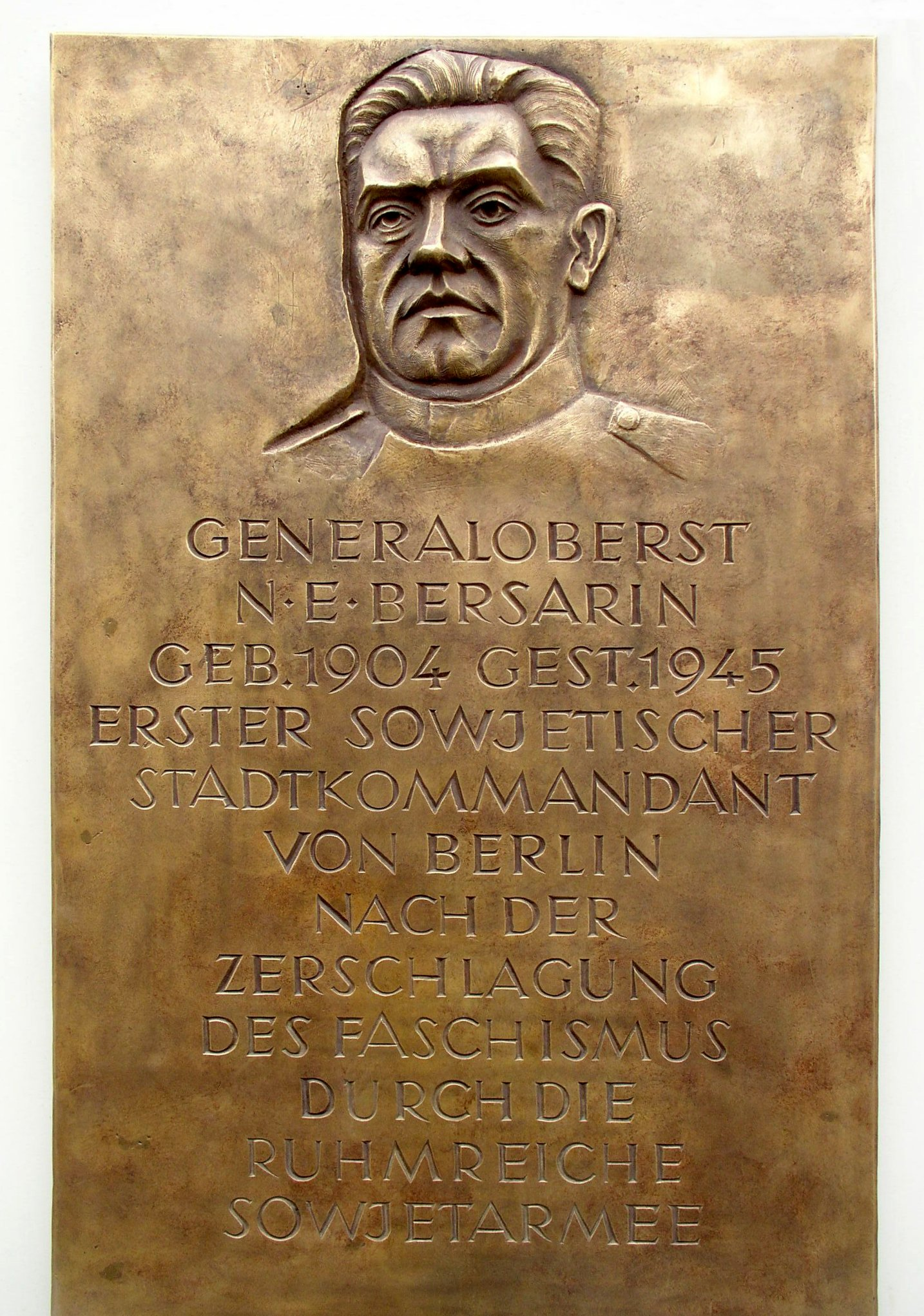 Plaque of Bersarin by Fritz-Georg Schulz at the Bersarinplatz in Berlin-Friedrichshain, Germany